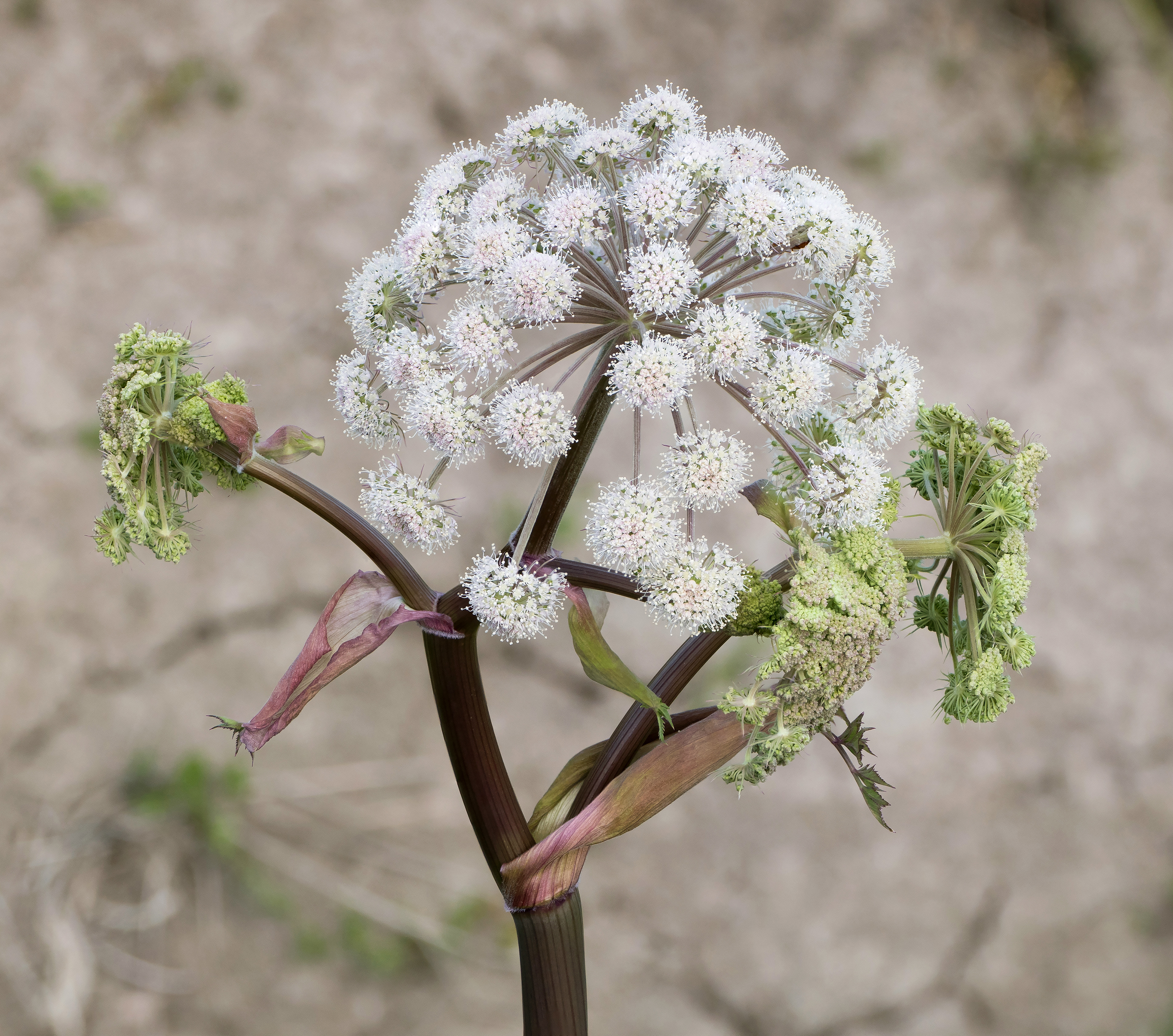 Budding wild angelica (Angelica sylvestris) just before blooming. Growing by a ditch in Gåseberg, Lysekil Municipality, Sweden. This was one of about a hundred angelica plants growing along a ditch. Three of them growing under almost identical conditions, were selected for a series to show the development of the bud up to just before blooming. Focus stacking of 5 pictures (using Photoshop)..